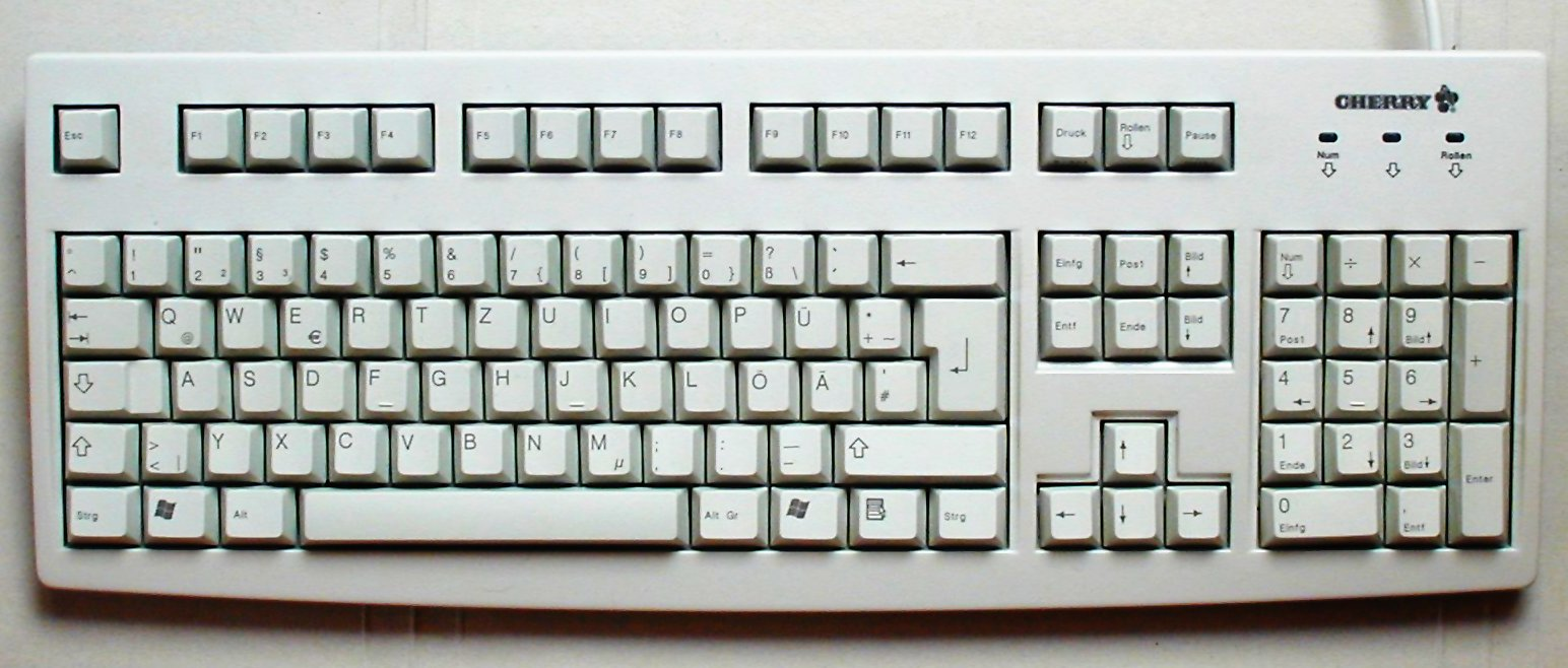 Cherry keyboard with German layout. 105 keys.